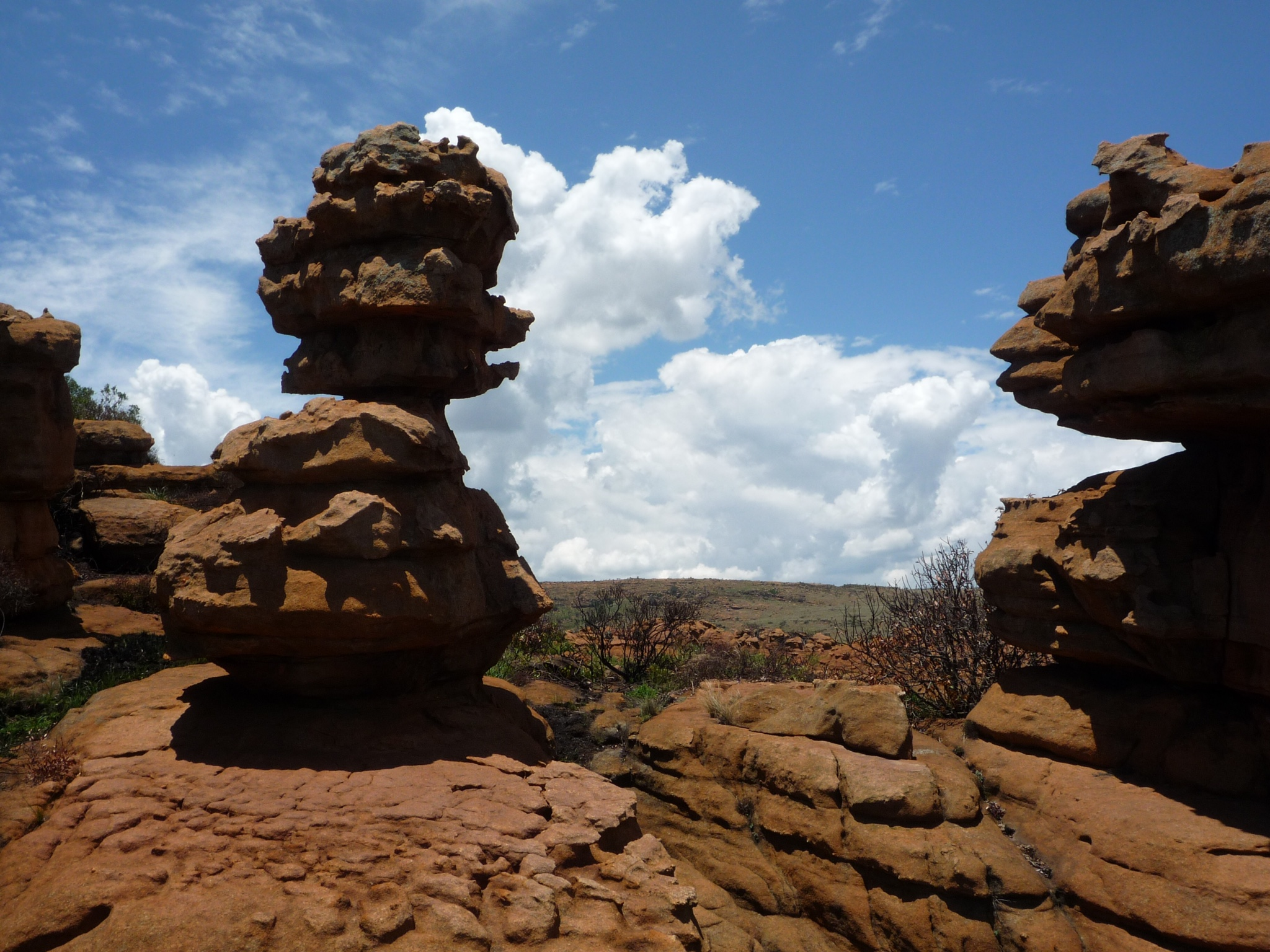 Magaliesberg mountains